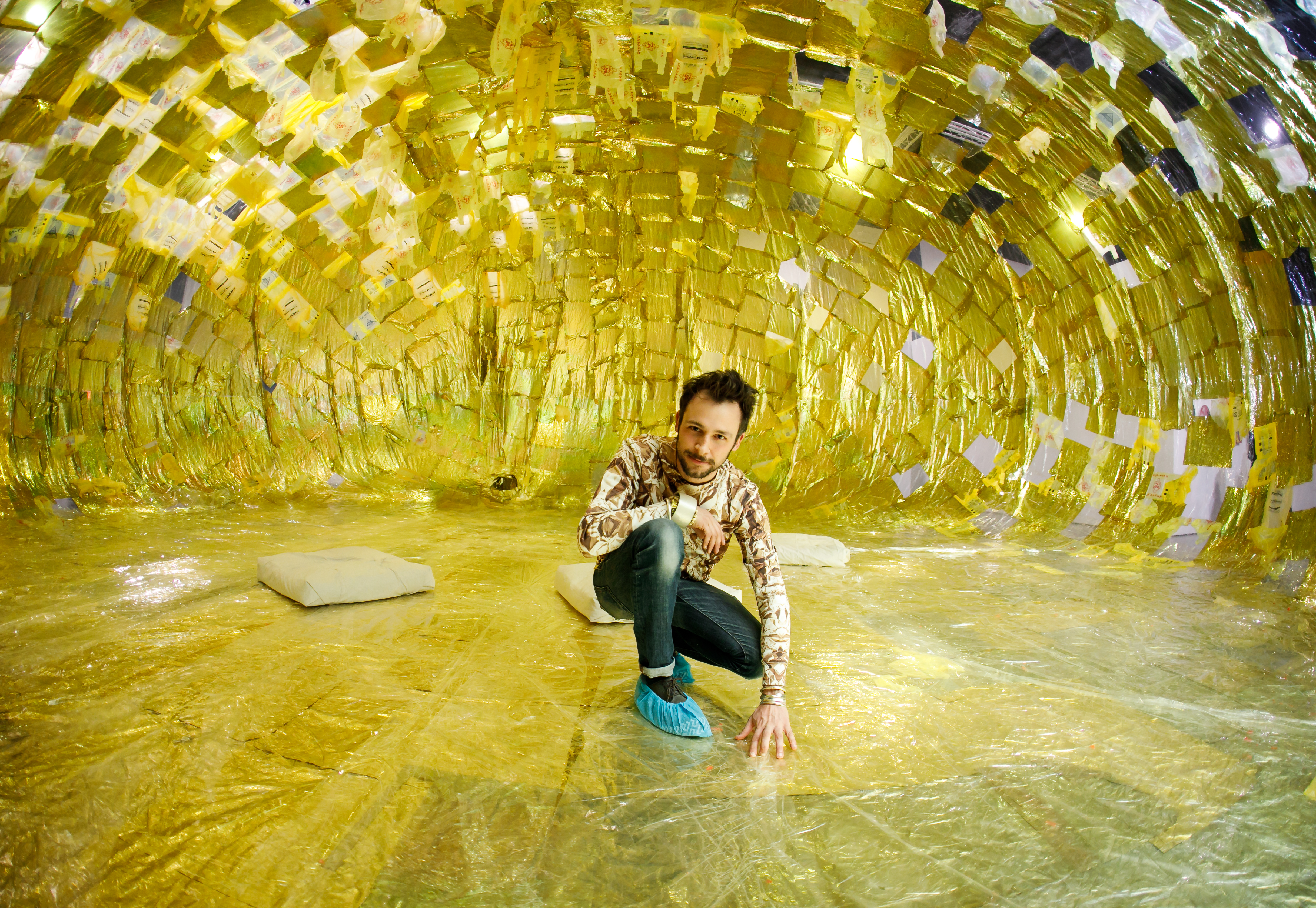 ‘Inside the Dragon Breath’ Installation at APB2018 / Stefano Ogliari Badessi